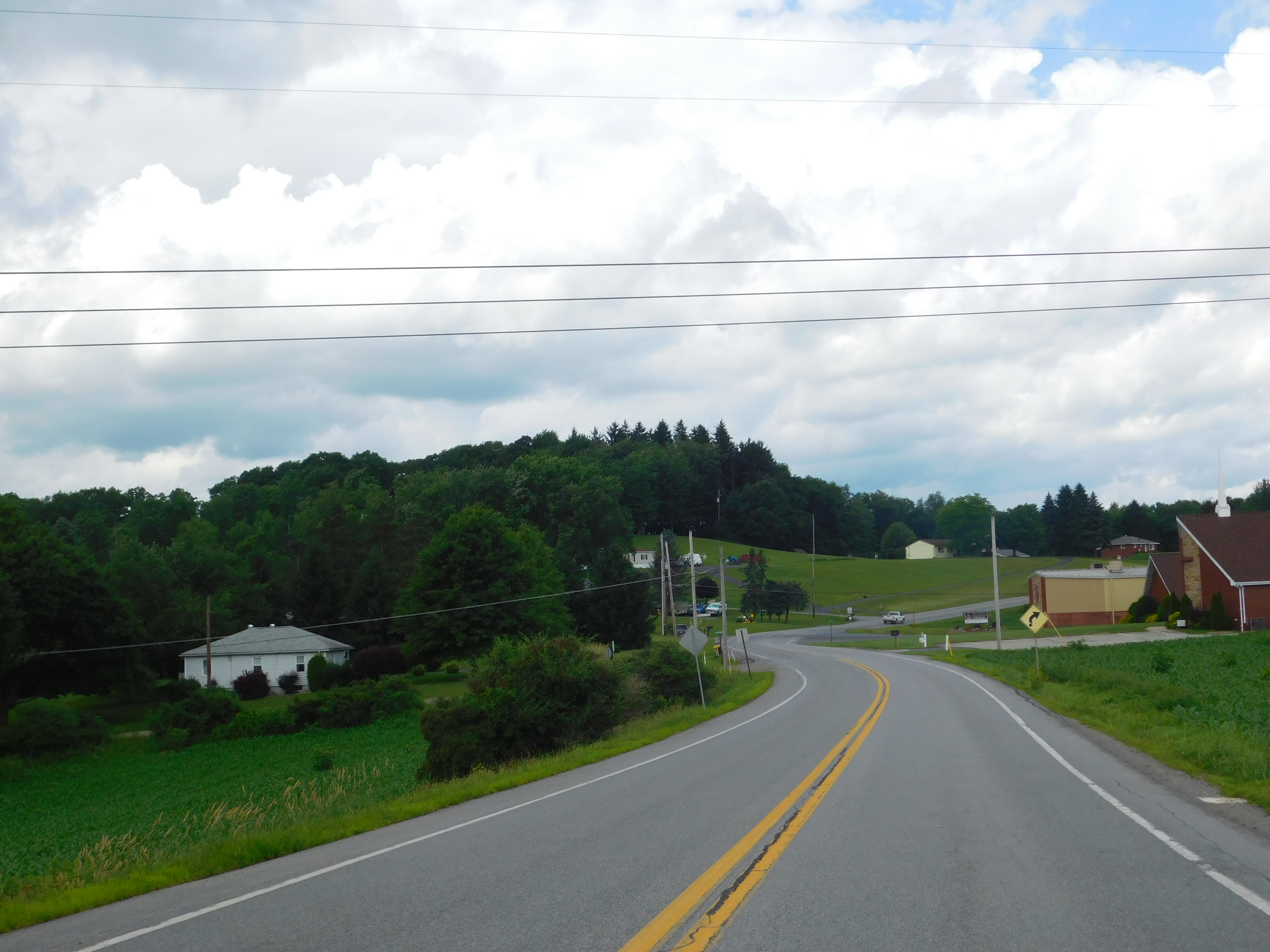 Pennsylvania Route 436 in Punxsatawney, Pennsylvania.